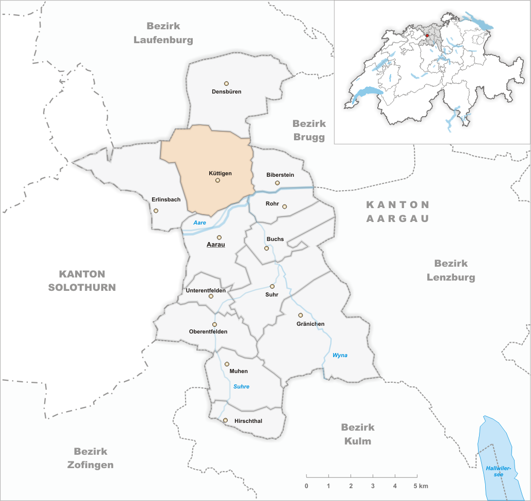 Municipality Küttigen